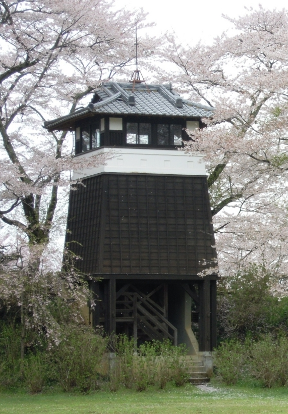 Reconstructed Yagura of Kurobane Castle, Otawara, Tochigi